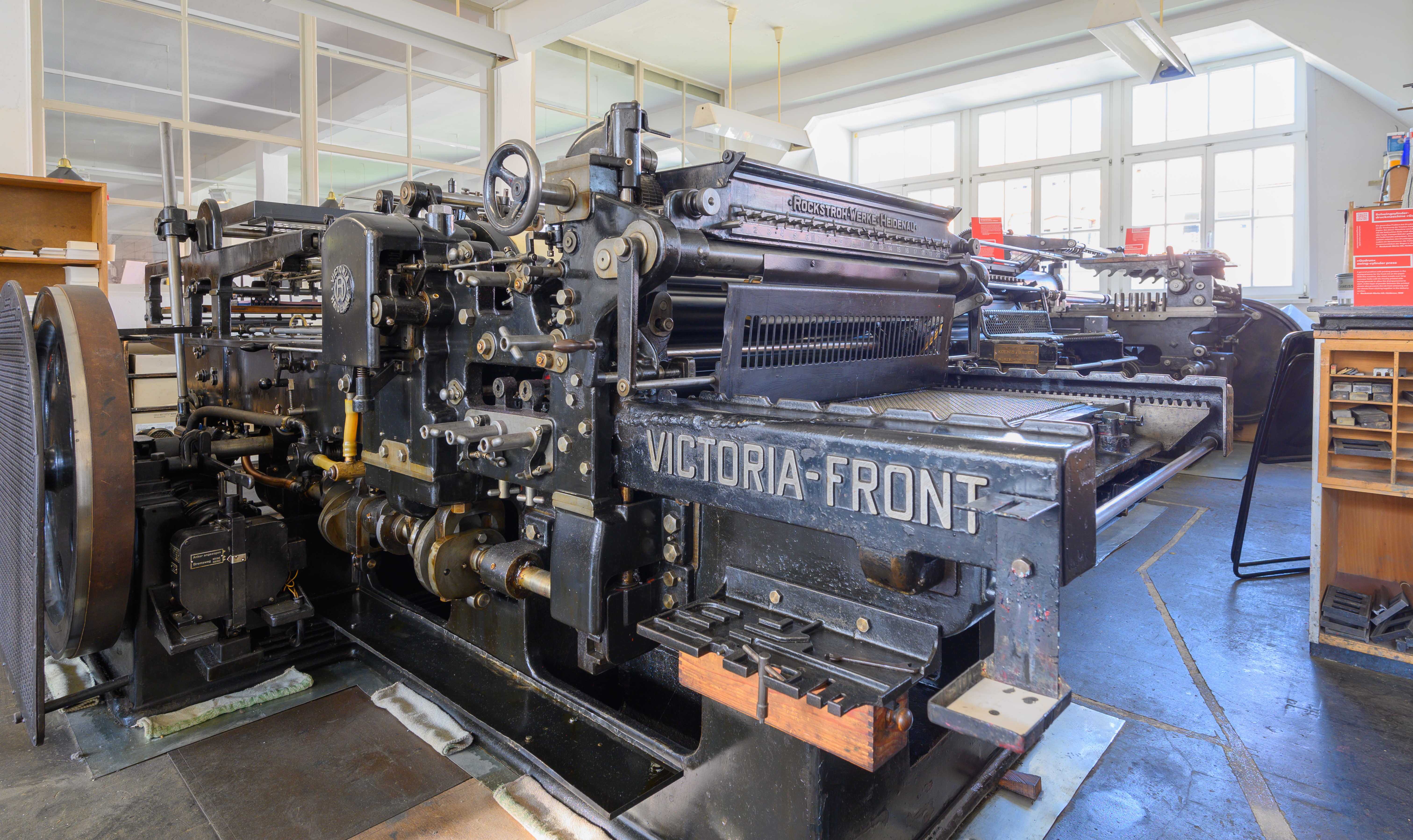 Printing machine from Rockstroh